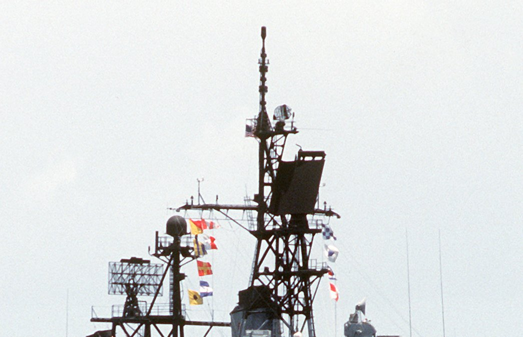 Radar arangement of the U.S. Navy guided missile destroyer USS MacDonough (DDG-39) in 1984 (left to right): SPS-37, TACAN URN-20, SPS-10, SPS-48, Mk 68 gun director with SPG-53 radar.